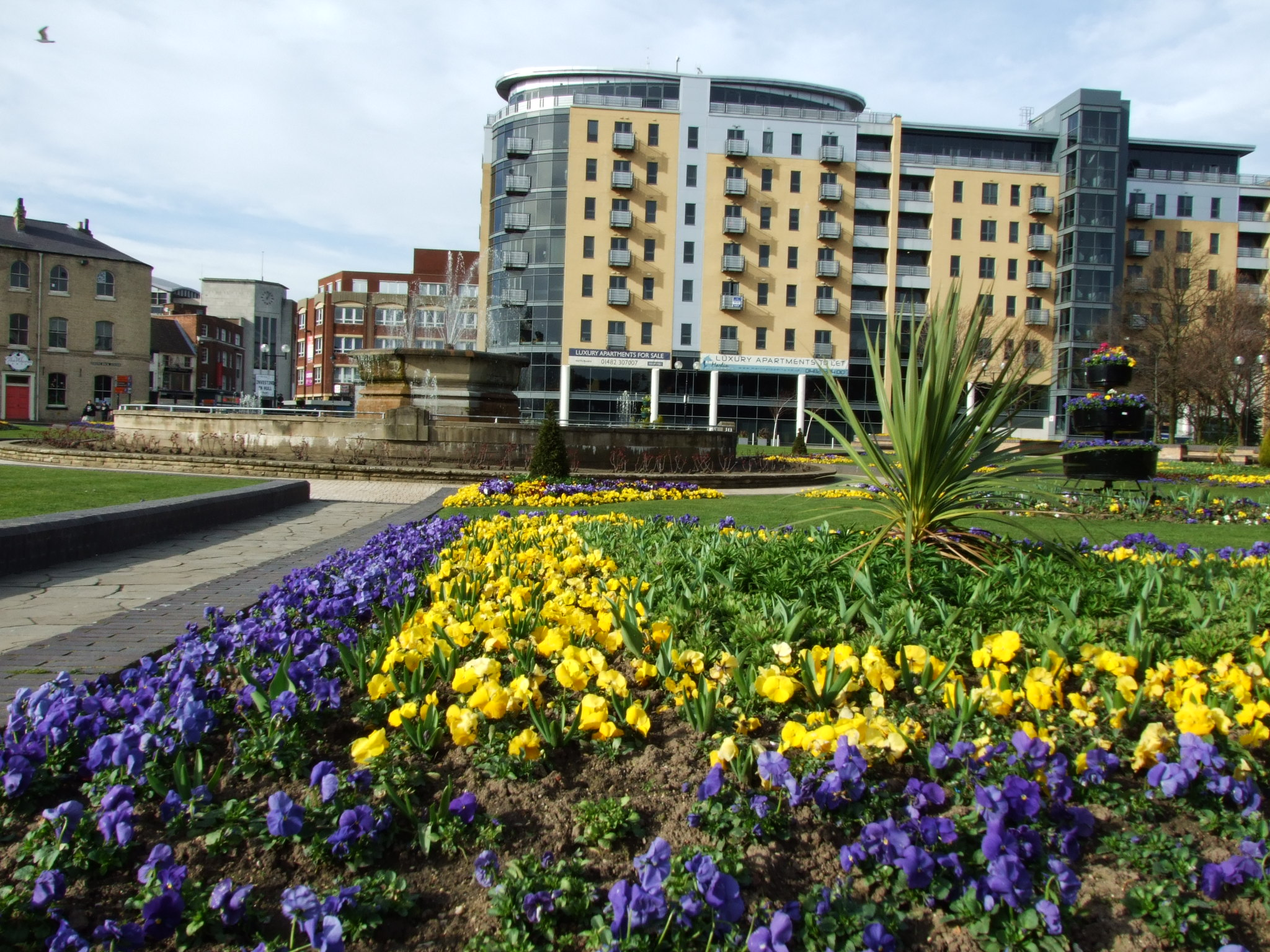 BBC Building seen across floral displays at Queen's Gardens. Digital photograph taken 11 March 2007 by Austen Redman.